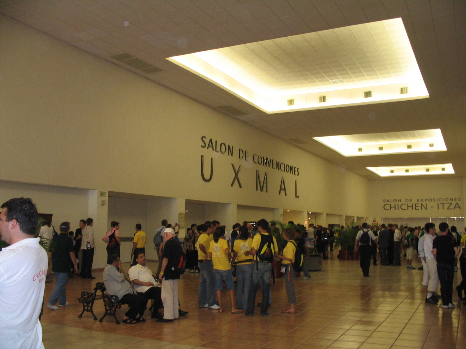 Siglo XXI Convention Centre, Mérida, Mexico. The photograph was taken during the International Olympiad in Informatics 2006.